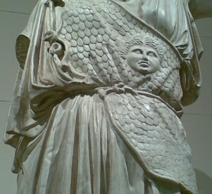 Phidias. - Athena Lemnia in the Staatliche Museum, Albertinum, Dresden. Plaster cast in Pushkin Museum, Moscow.